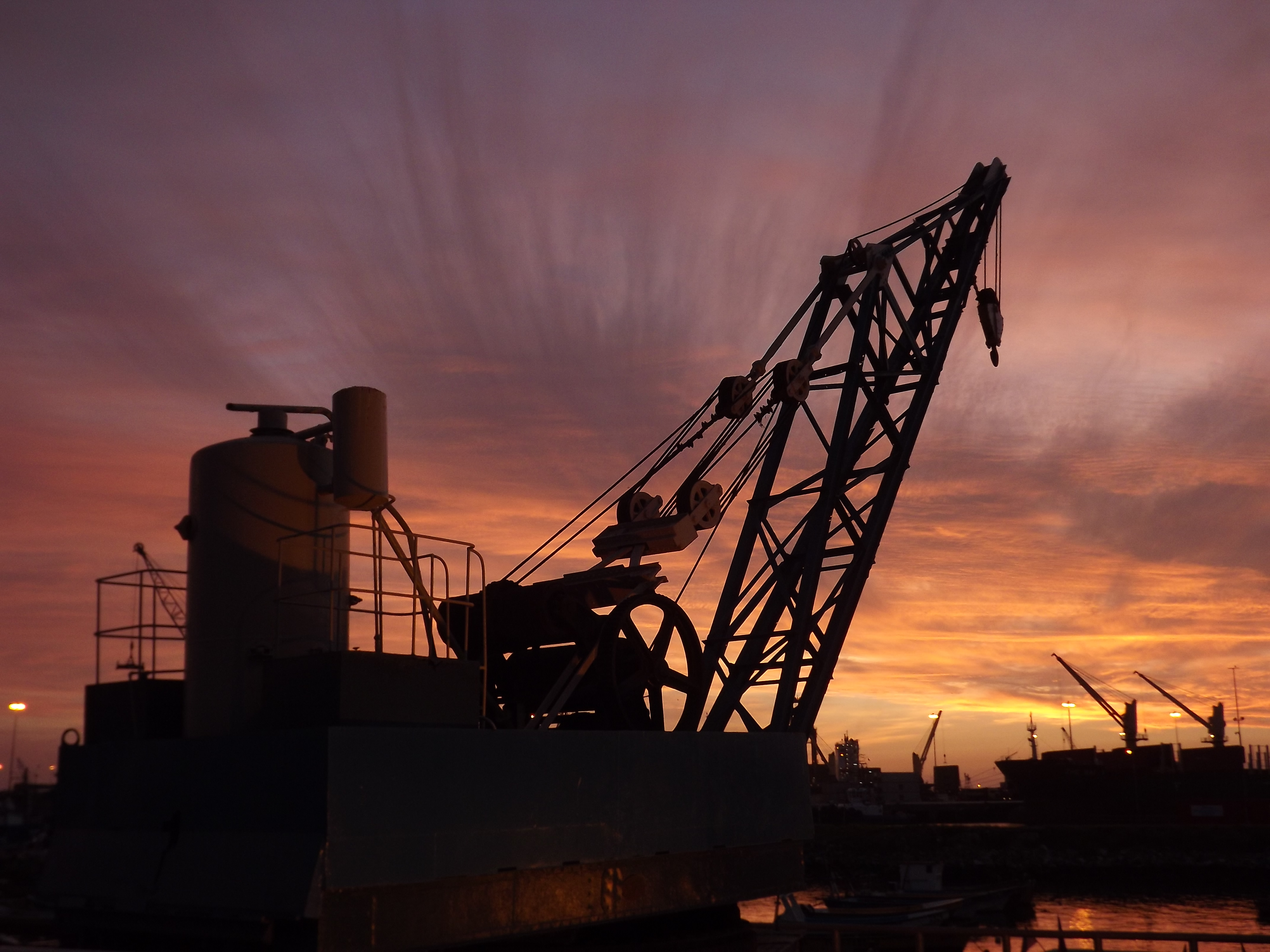 San Antonio Chile, principal puerto del pais This is a photo of a national monument in Chile: 632